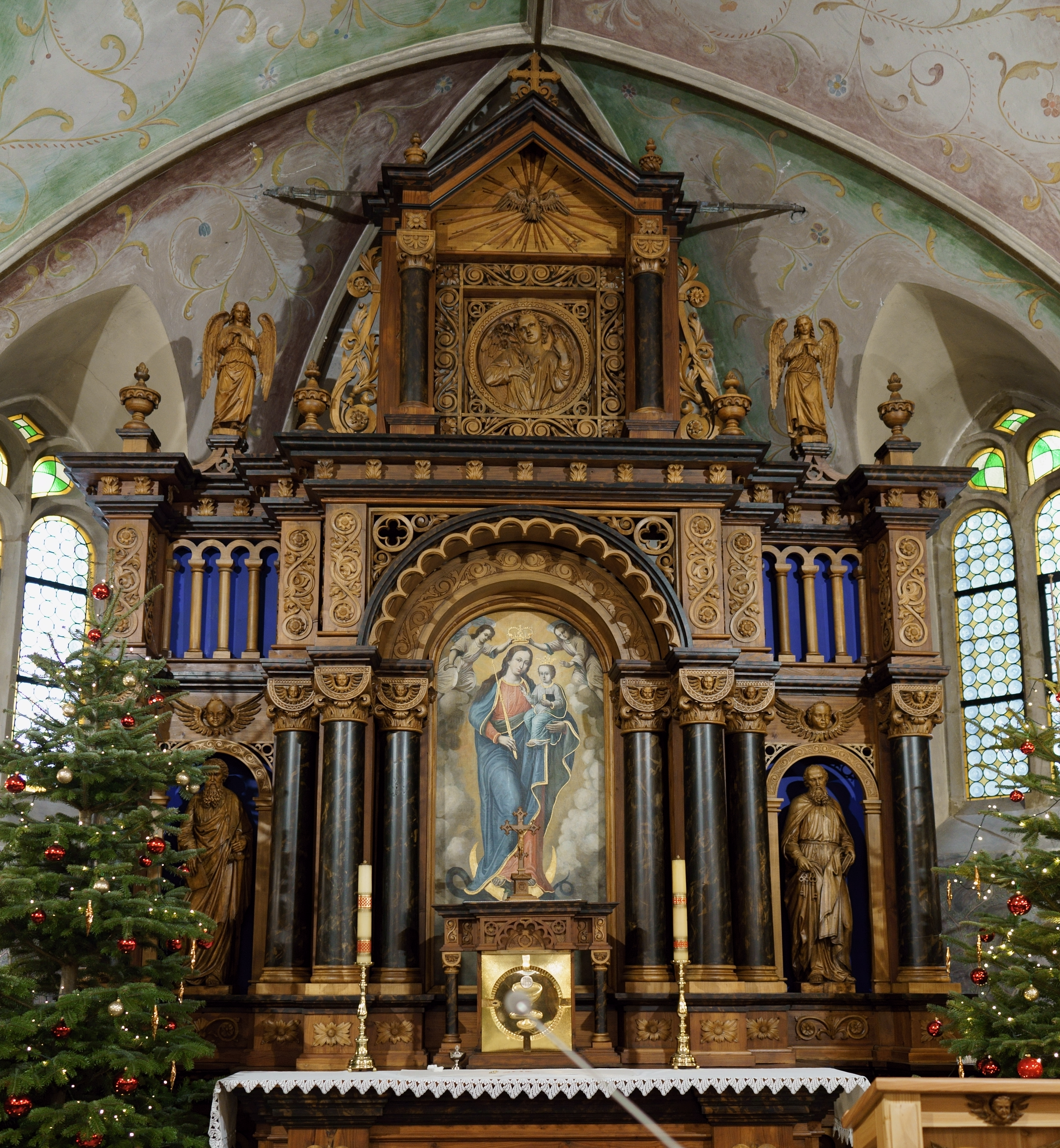 Church of St. Jacob in Myślenice